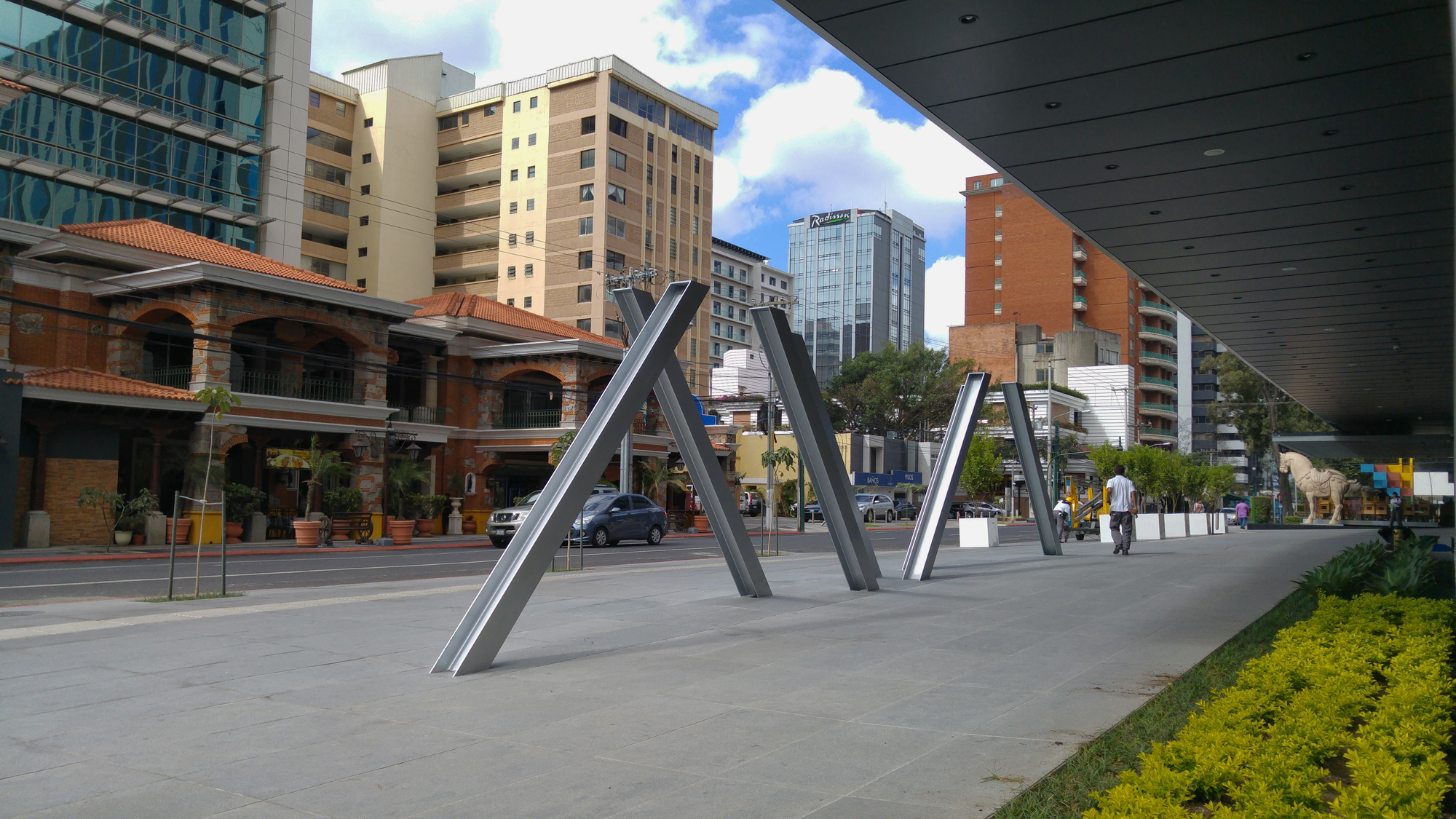 Streets in Guatemala City, the biggest city in Central America